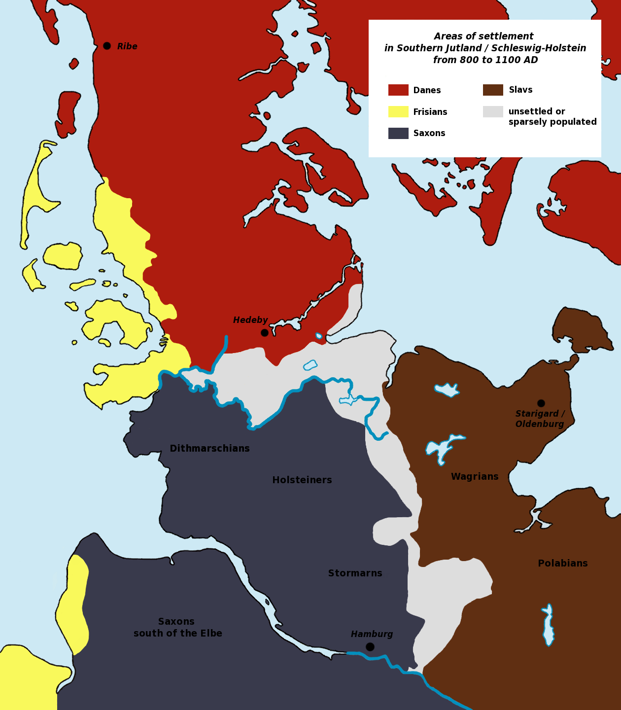 Areas of historic Settlements in southern Jylland / Schleswig-Holsteinfrom 800 to 1100, sources: 1) "Siedlungsgebiete vom 9. bis 11. Jahrhundert" i: Historischer Atlas Schleswig-Holstein vom Mittelalter bis 1867, Neumünster 2004. 2) Peter Ilsøe: Nordens Historie, København 1936 (with text)